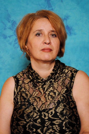 Lydia Galochkina in 2015